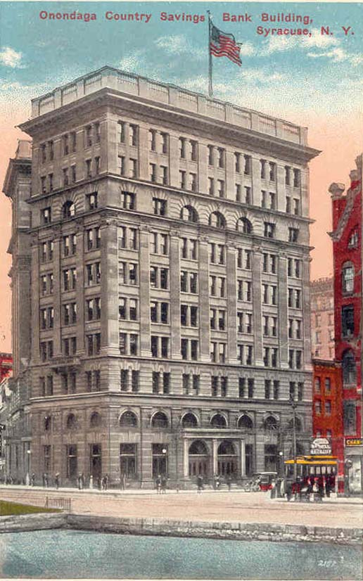 Historic postcard of Onondaga County Savings Bank, showing the Erie Canal. Postcard ca 1900.